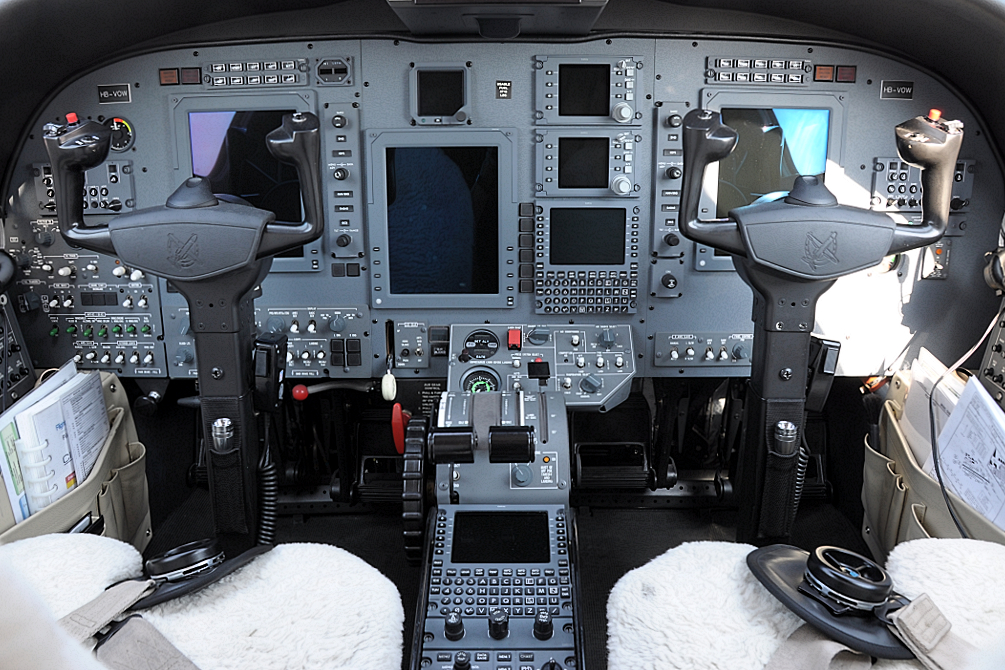 Cockpit of a Cessna CitationJet